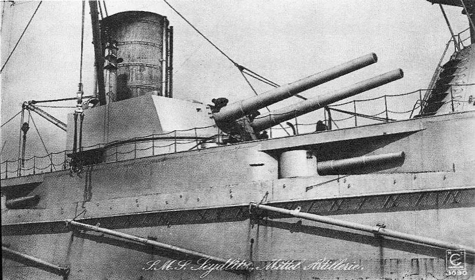 Right wing turret of SMS Seydlitz.